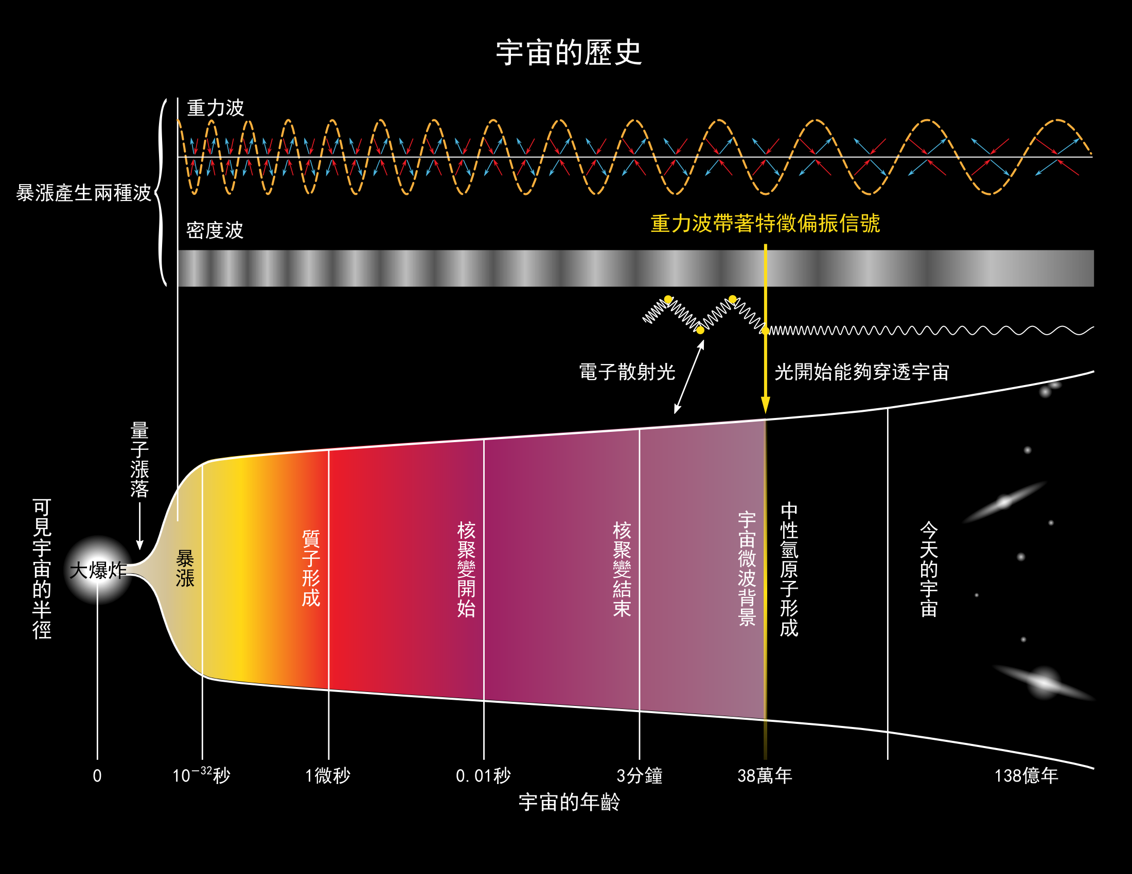 PNG version of File:History of the Universe-zh-hant.svg.